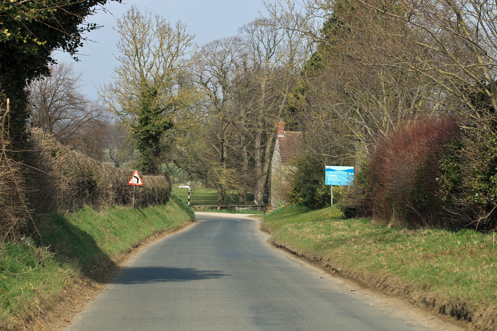 The hamlet of East Ness